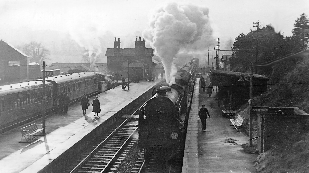 Robertsbridge Station, with Up Hastings express and K&ESR train. View southward, towards Hastings on the ex-SE&CR London - Tonbridge - Hastings main line; terminus of the Kent & East Sussex Light Railway from Tenterden and Headcorn. It is the Last Day of the original K&ESR (see TQ8833 : Tenterden Town station, with train from Headcorn on the Last Day of service.) and in the bay on the left is ex-LB&SC Stroudley A1X class 0-6-0T No. 32655 (built 12/1875 as A1 No. 55 'Stepney', rebuilt as A1X 10/1912, withdrawn 5/60 but purchased and preserved by the Bluebell Railway since then). The Up Hastings - Charing Cross express is headed by SR Maunsell class V 'Schools' 4-4-0 No. 30905 'Tonbridge' (built 5/30, withdrawn 12/61).